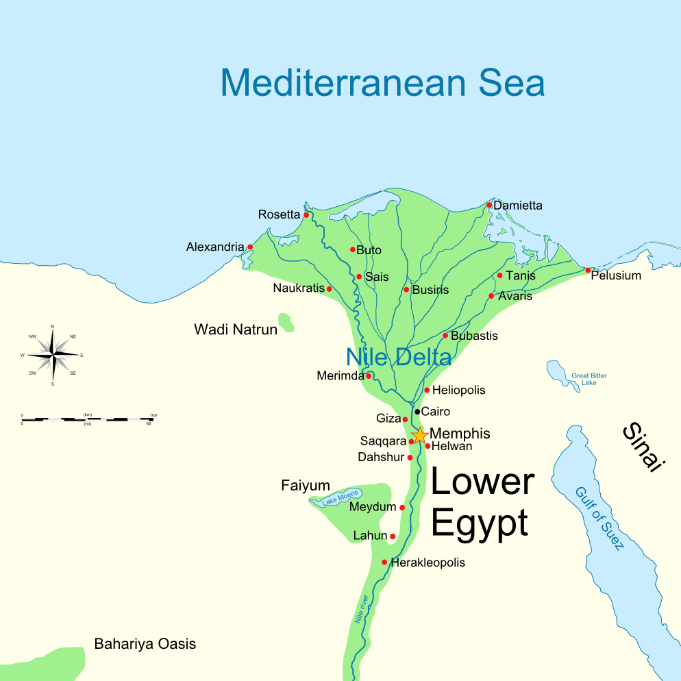 Map of Lower Ancient Egypt, showing the Nile and major cities and sites of the Dynastic period (c. 3150 BC to 30 BC).